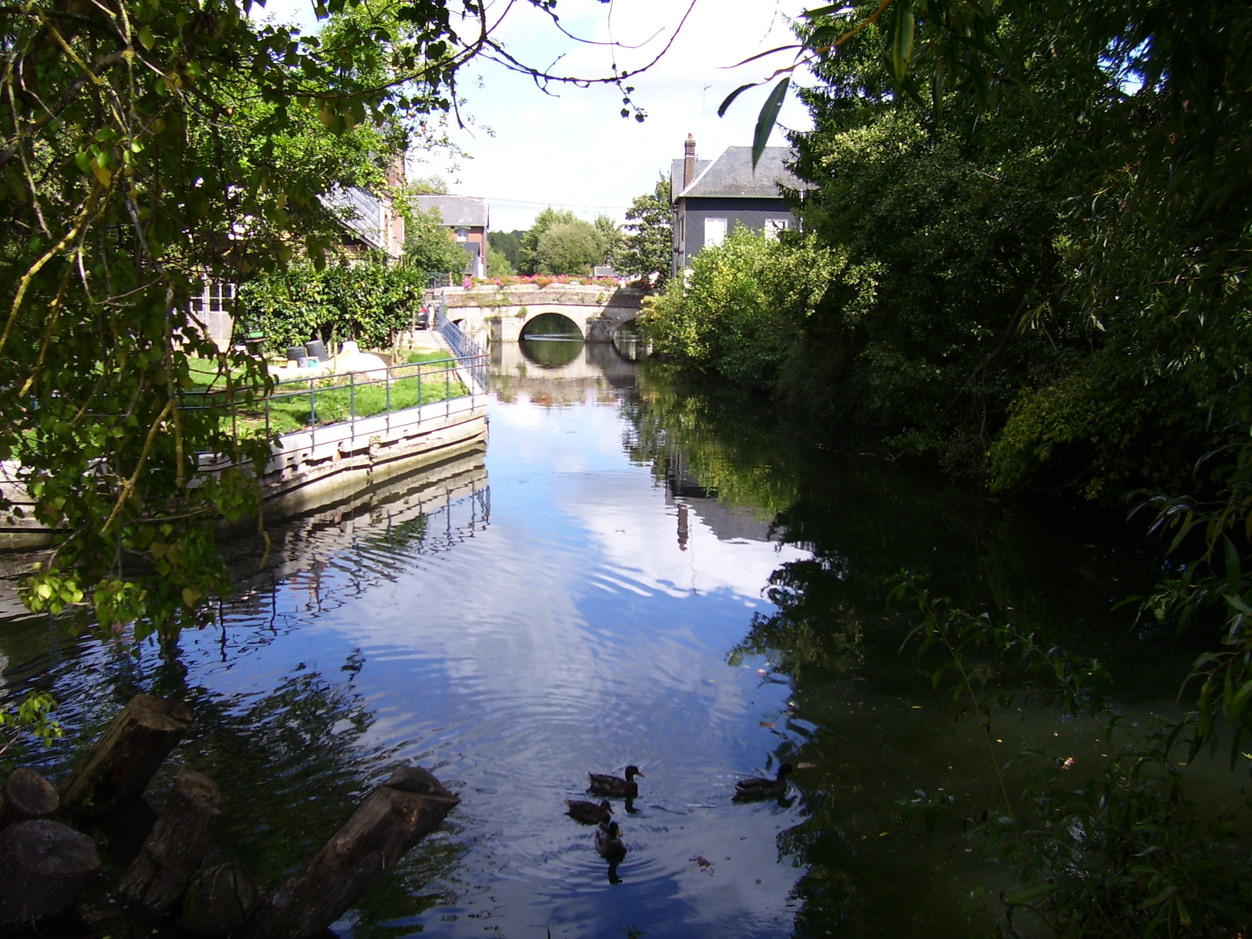 The Charentonne in Bernay (Eure, Haute-Normandie, France).